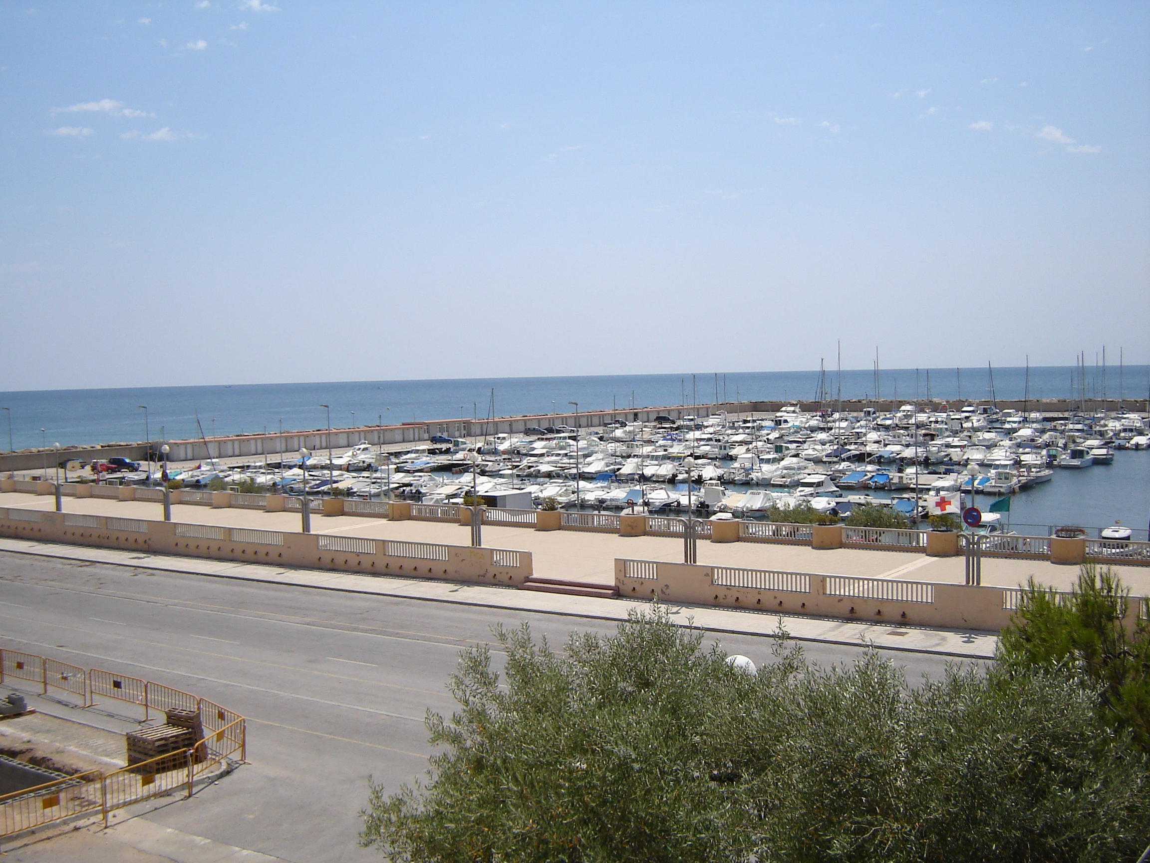 Marina of Hospitalet de l'Infant. Hospitalet de l'Infant, municipality of Vandellòs i l'Hospitalet de l'Infant, comarca Baix Camp, province of Tarragona, Spain.